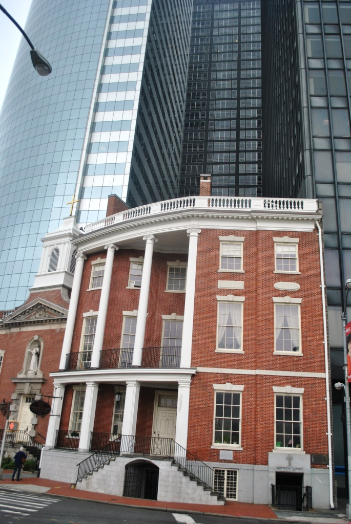 James Watson House